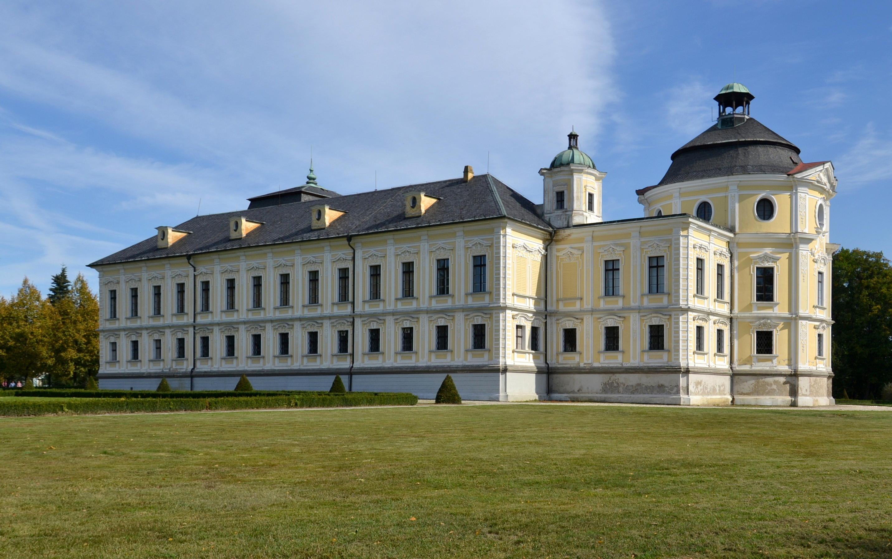 Kravaře Palace, Czech Silesia, Czech Republic; from the south-west